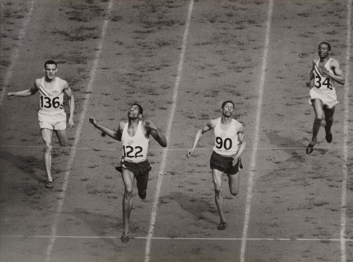 Arthur Wint recorded an Olympic record for the 400 metres in 1948 and was the first Jamaican to win an Olympic gold. Wint was known as "the Gentle Giant". In 1942 he joined the British Common Wealth Air Training Plan and was sent to Britain for active combat during World War II. He left the RAF in 1947 to attend St Bartholomew's Hospital as a medical student before returning to his homeland as a doctor. Daily Herald Archive at the National Media Museum